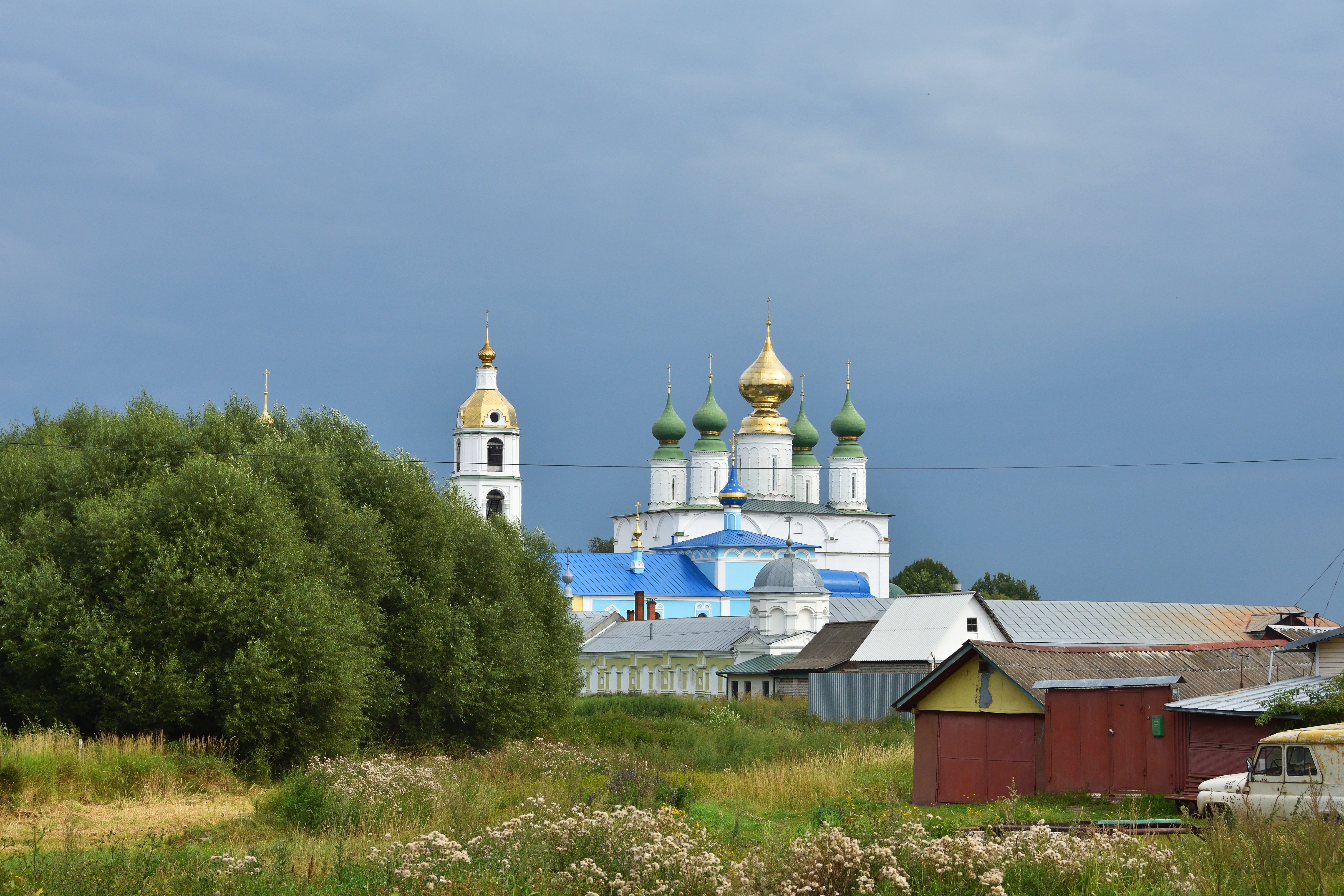 Nikolo-Shartomsky Monastery, Shuysky dictrict, Ivanovo oblast, Russia